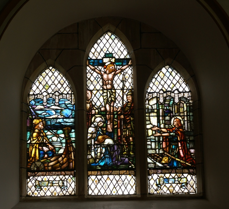 St Magnus Church, Birsay, Mainland, Orkney, Scotland. East window with Saint Magnus in the Battle of Anglesay (left) and Saint Magnus praying in Christ's Kirk in Birsay (right).